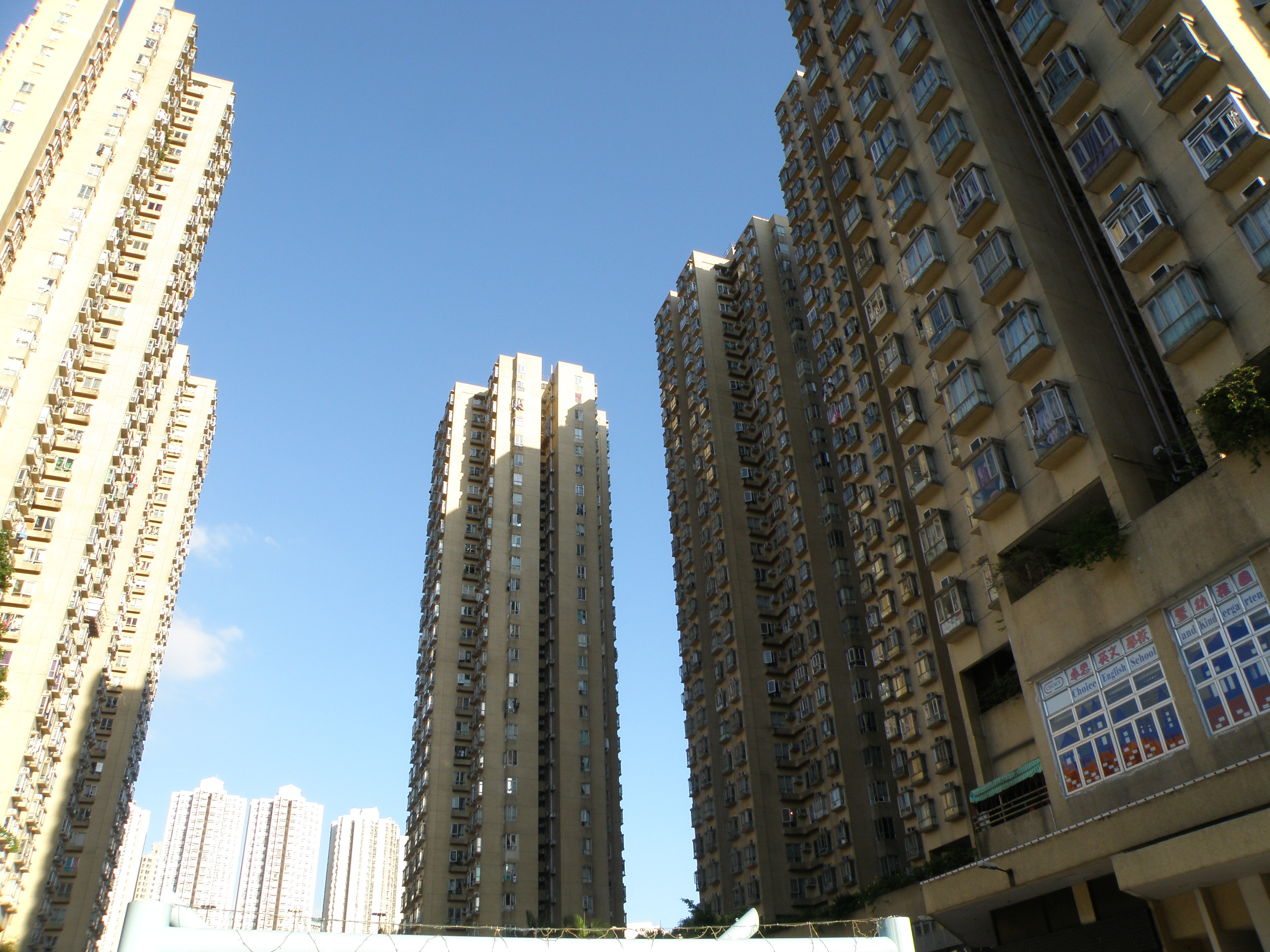 Tsing Yi Garden in Tsing Yi, Hong Kong.